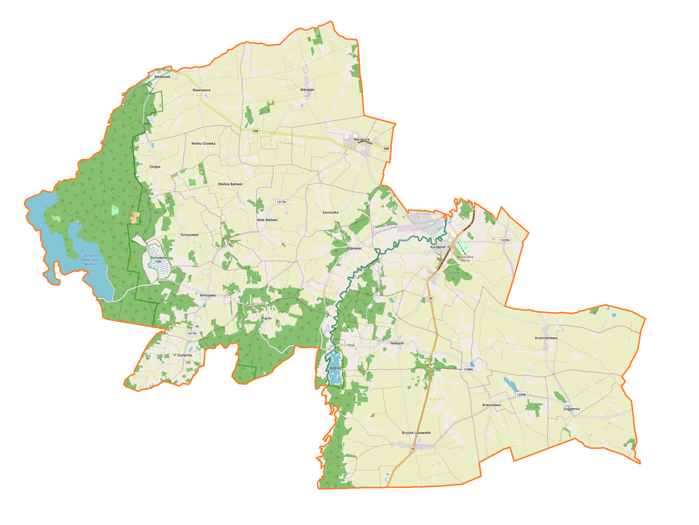 Location map